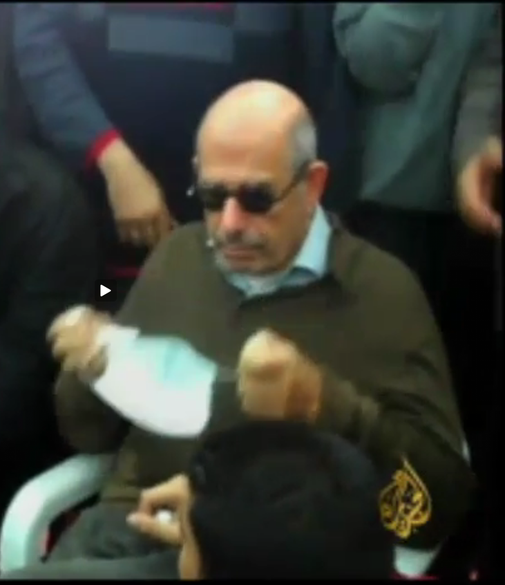 This image is a screenshot of from a "Footage of Egyptian protests 2" video provided by Al Jazeera